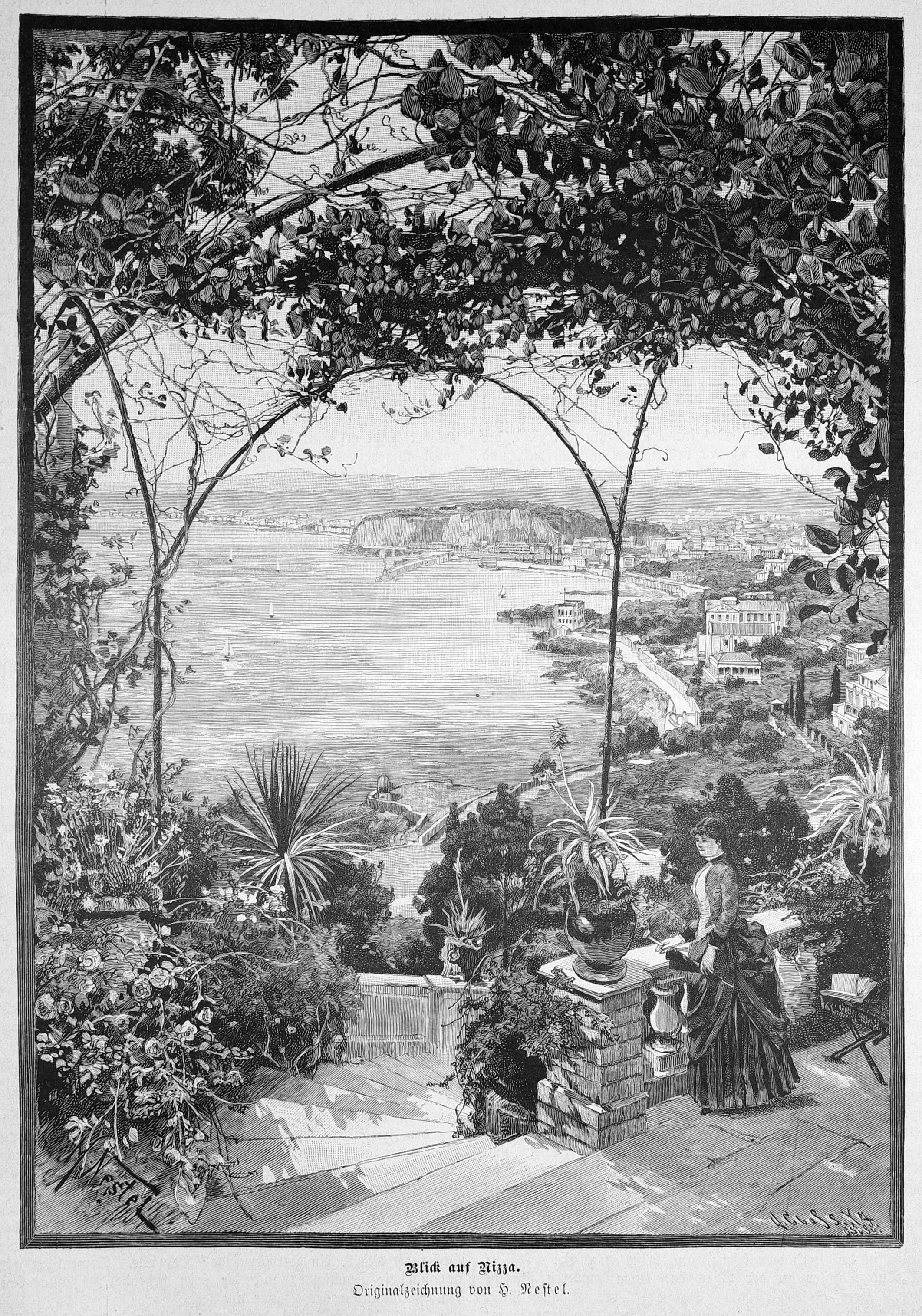 caption: "Blick auf Nizza.Originalzeichnung von H. Nestel."